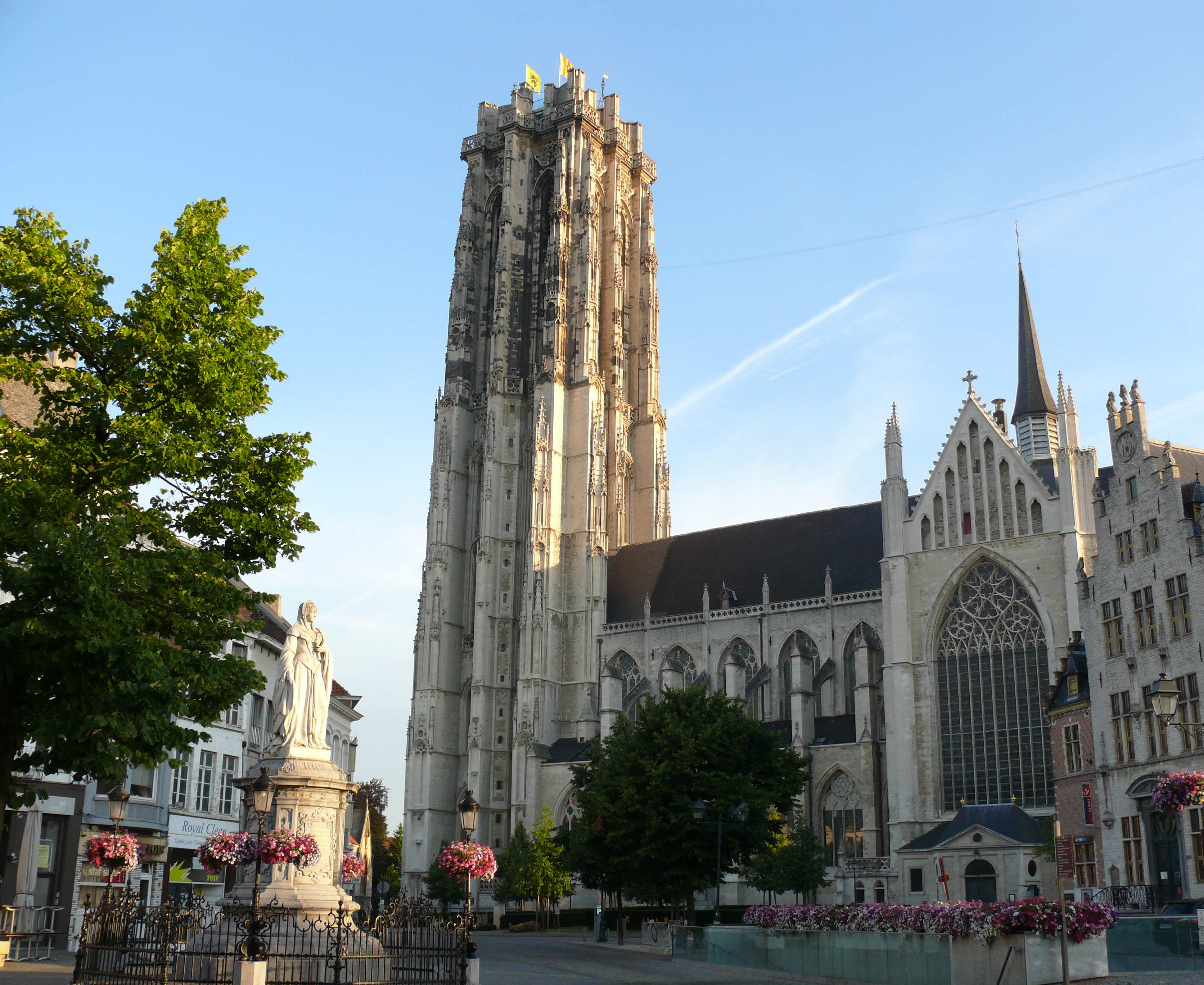 The flat-topped silhouette of the St-Rumbold's Cathedral's tower is easily recognizable and dominates the surroundings. Statue of Margaret of Austria, Duchess of Savoy on the Schoenmarkt in Mechelen.